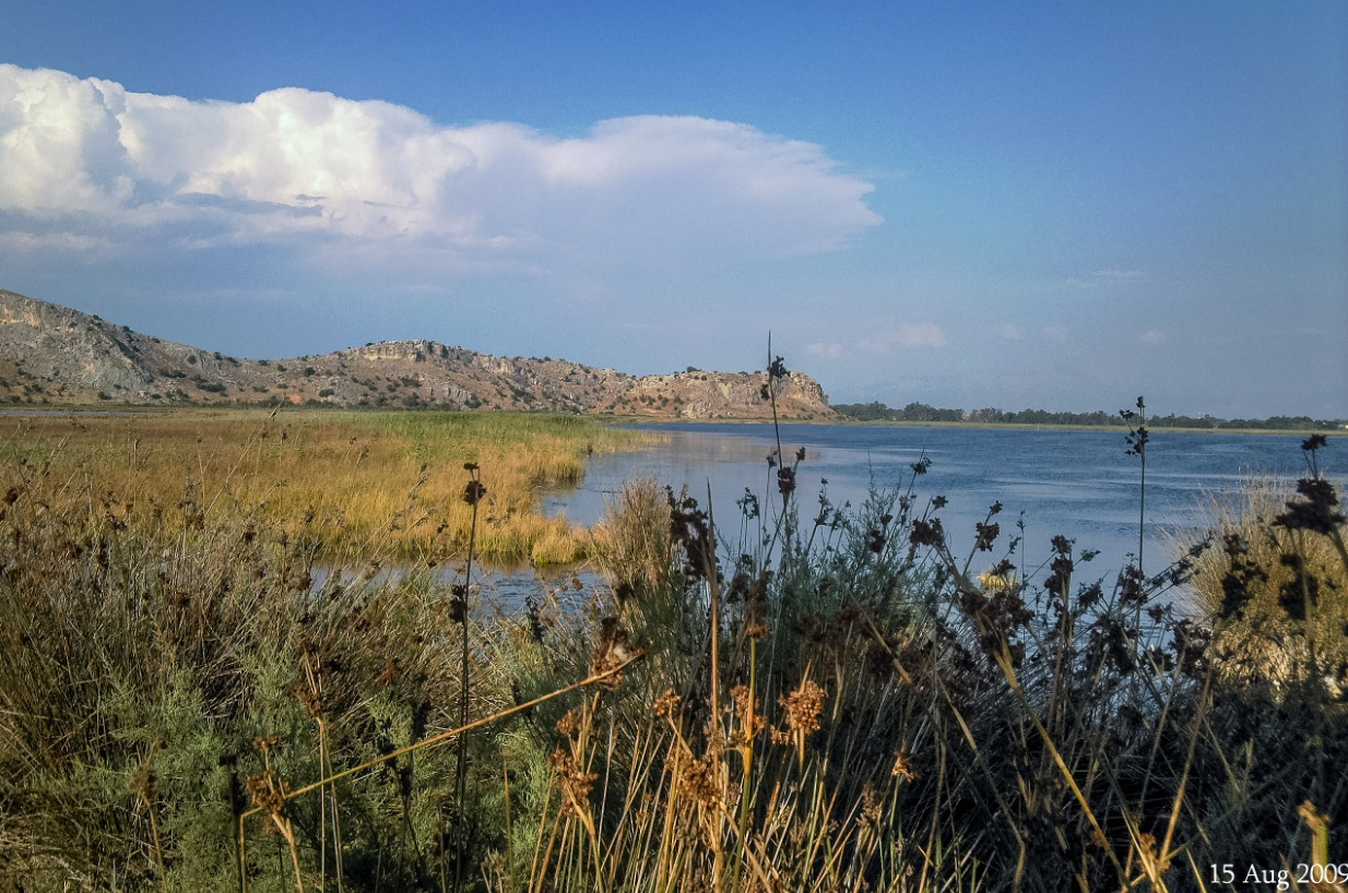 Prokopos Lagoon (or Prokopou Lagoon), Achaia, Greece.